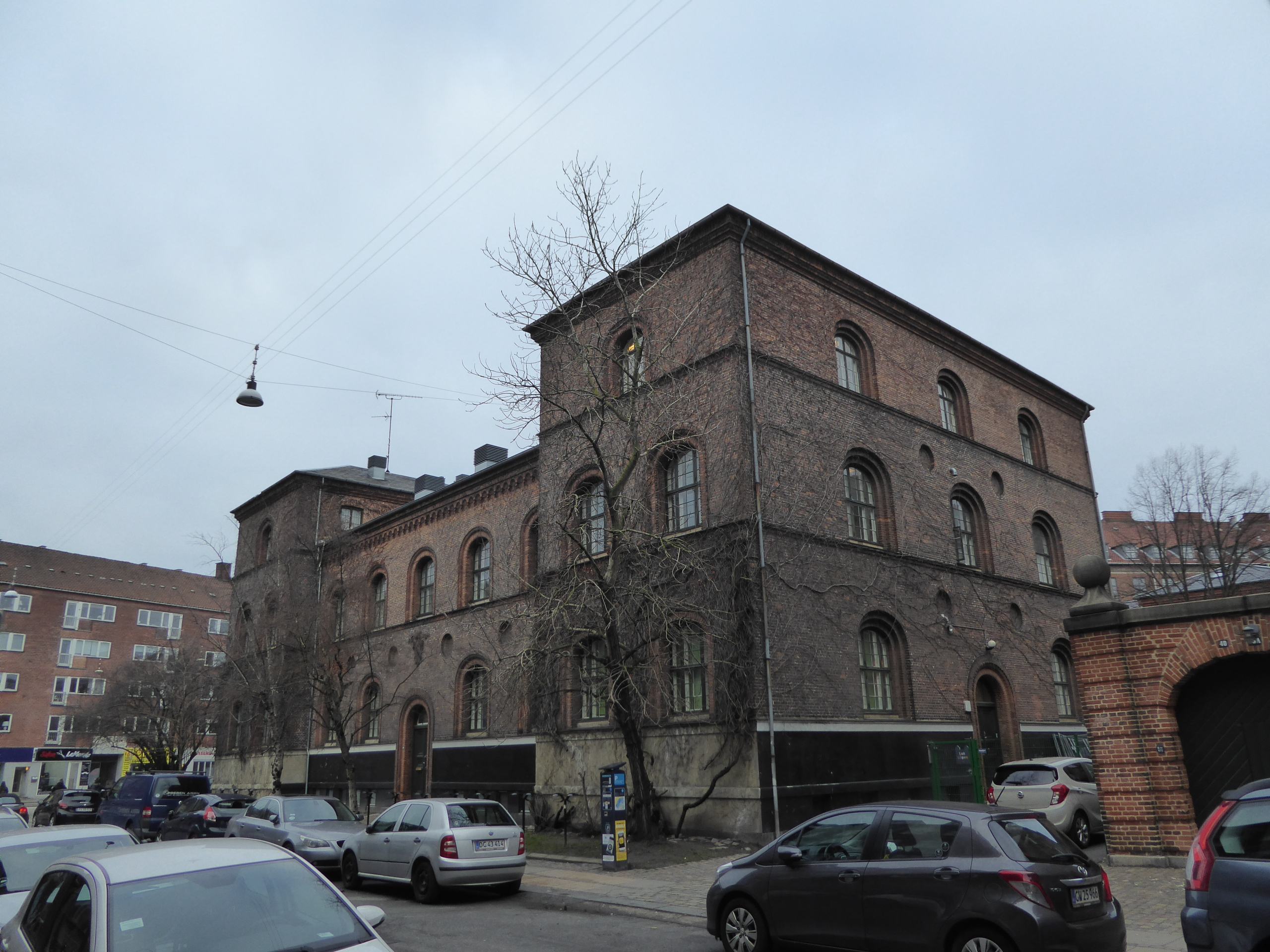 The child day care center and kindergarten Hulahophuset at Prinsesse Charlottes Gade in Nørrebro in Copenhagen. The special school Skolen i Charlottegården was former situated here.